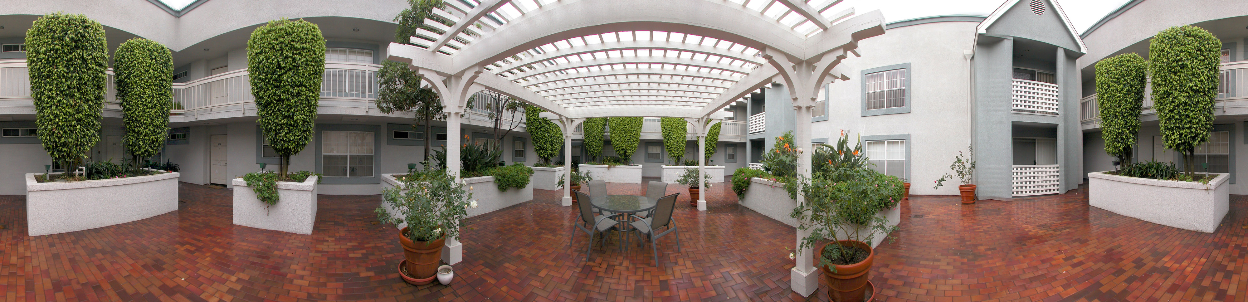 Panorama of the courtyard of my old apartment complex after it had been raining. Equipment used was a Nikon Coolpix 5000, Kaidan pano head, and Manfrotto tripod. Image was stitched together using Apple Computer's QuickTime VR Authoring Studio.